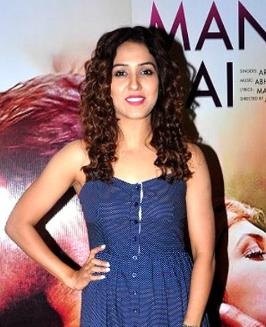 Neeti Mohan at the launch of T-Series' single 'Pyaar Manga Hai' featuring Zareen Khan & Ali Fazal